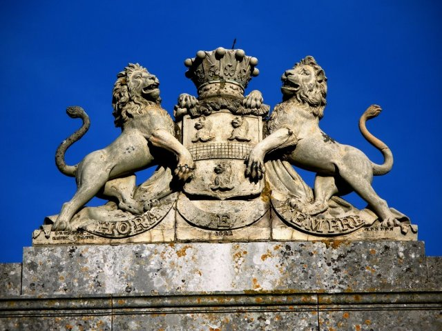 Fermor arms above the Easton Neston Gate at Towcester Race Course. Coade stone, signed by Croggan